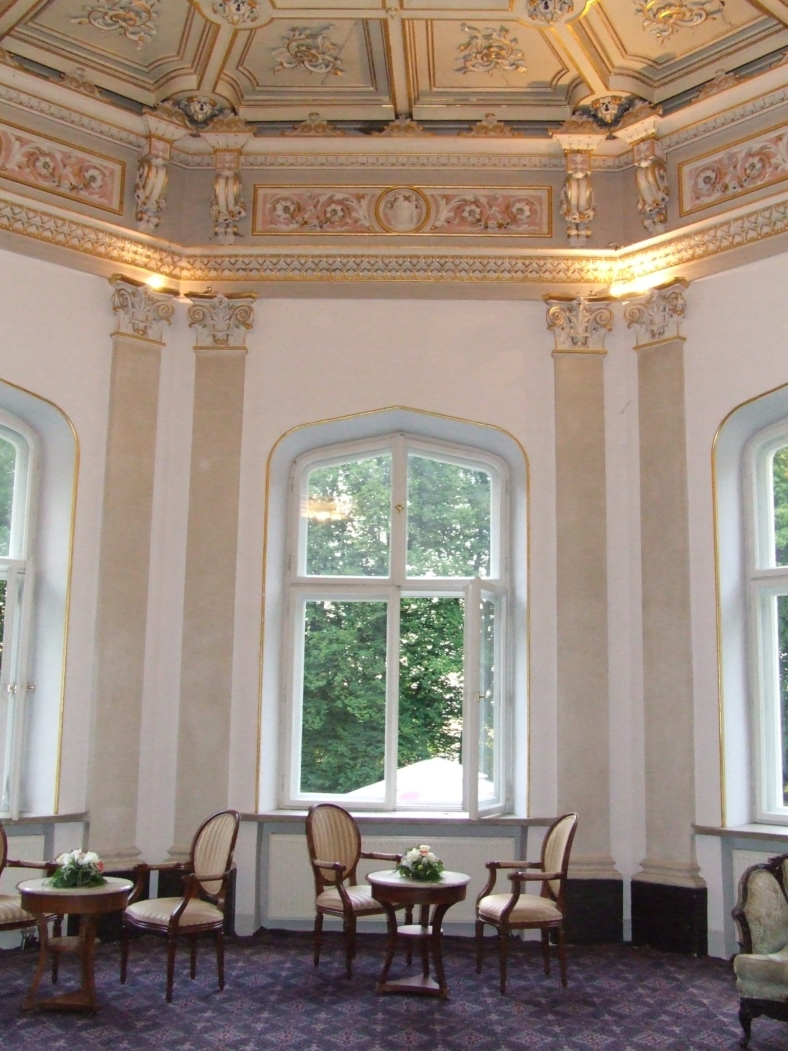 The palace in Paszkówka